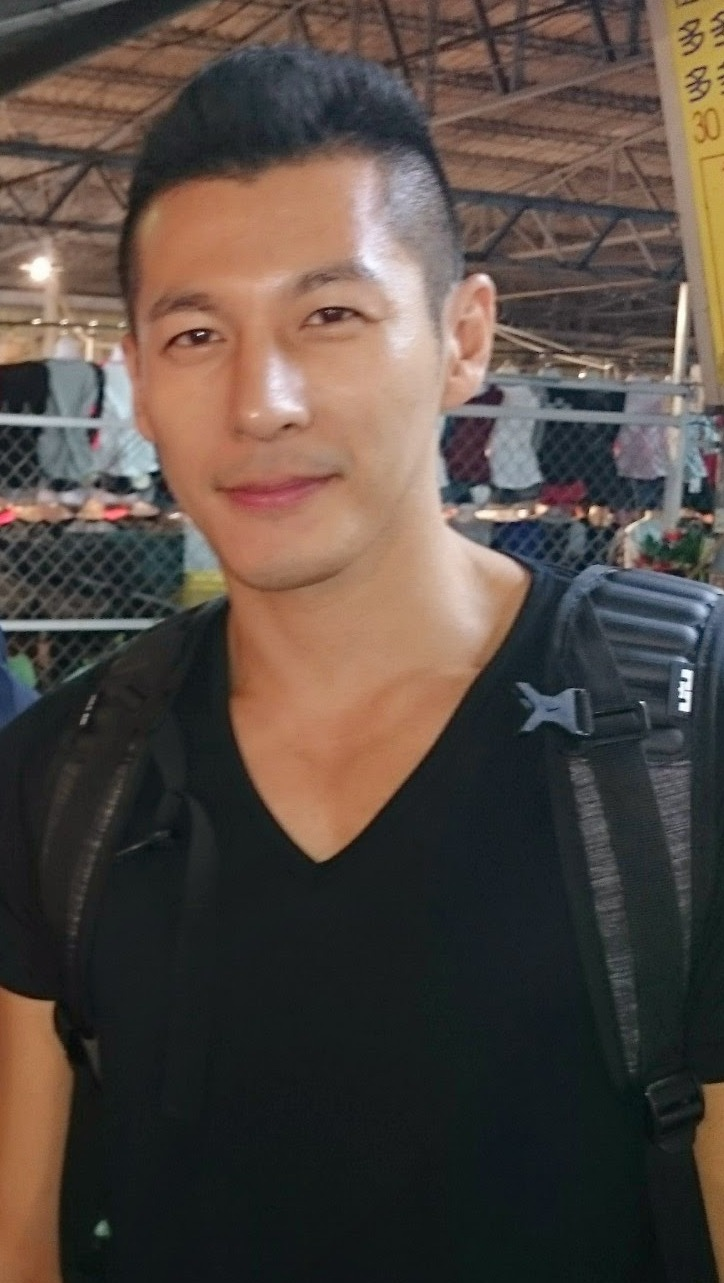 Hsin KUO, a Taiwan entertainer.